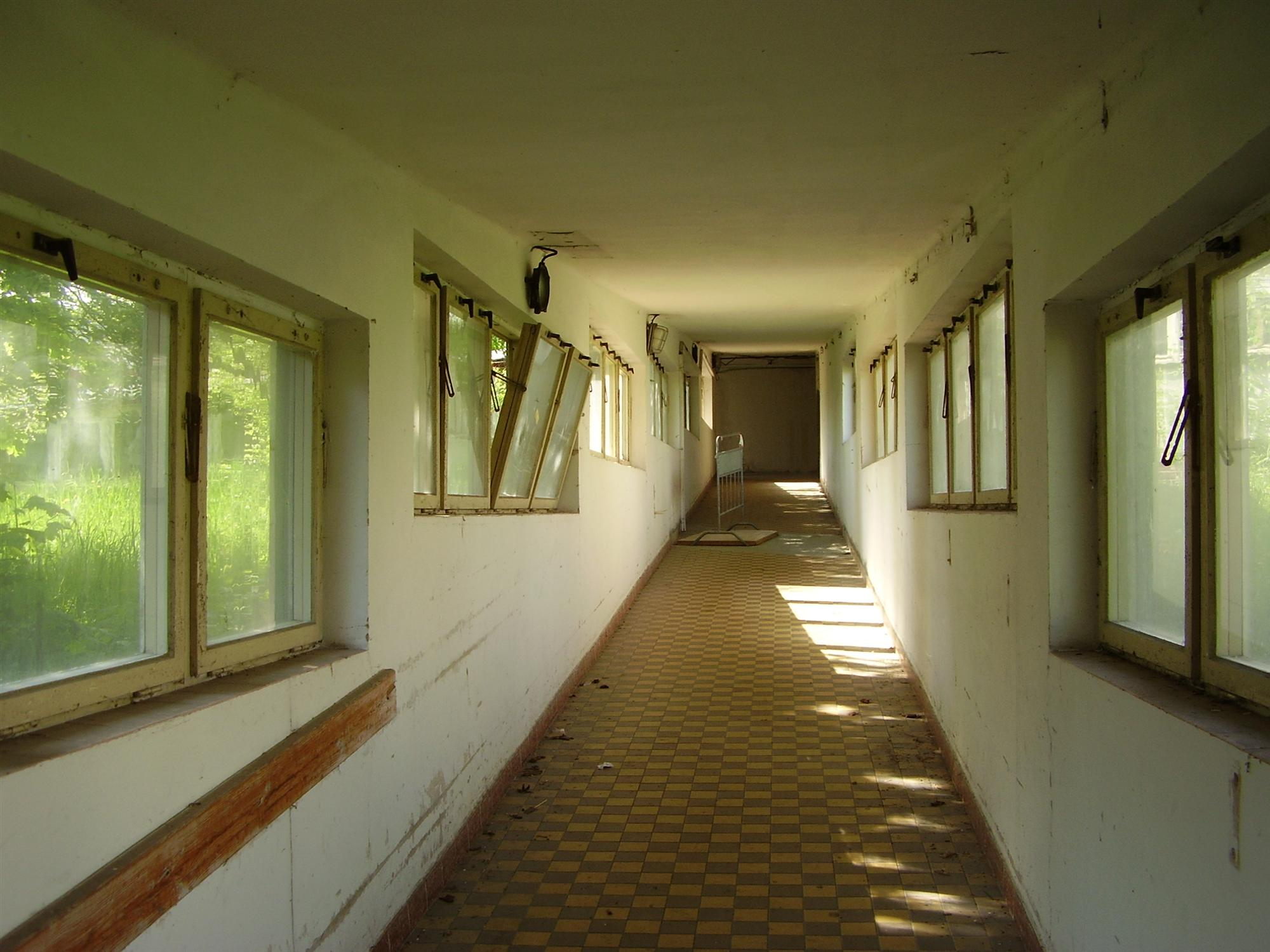 Unused part of Motol Hospital